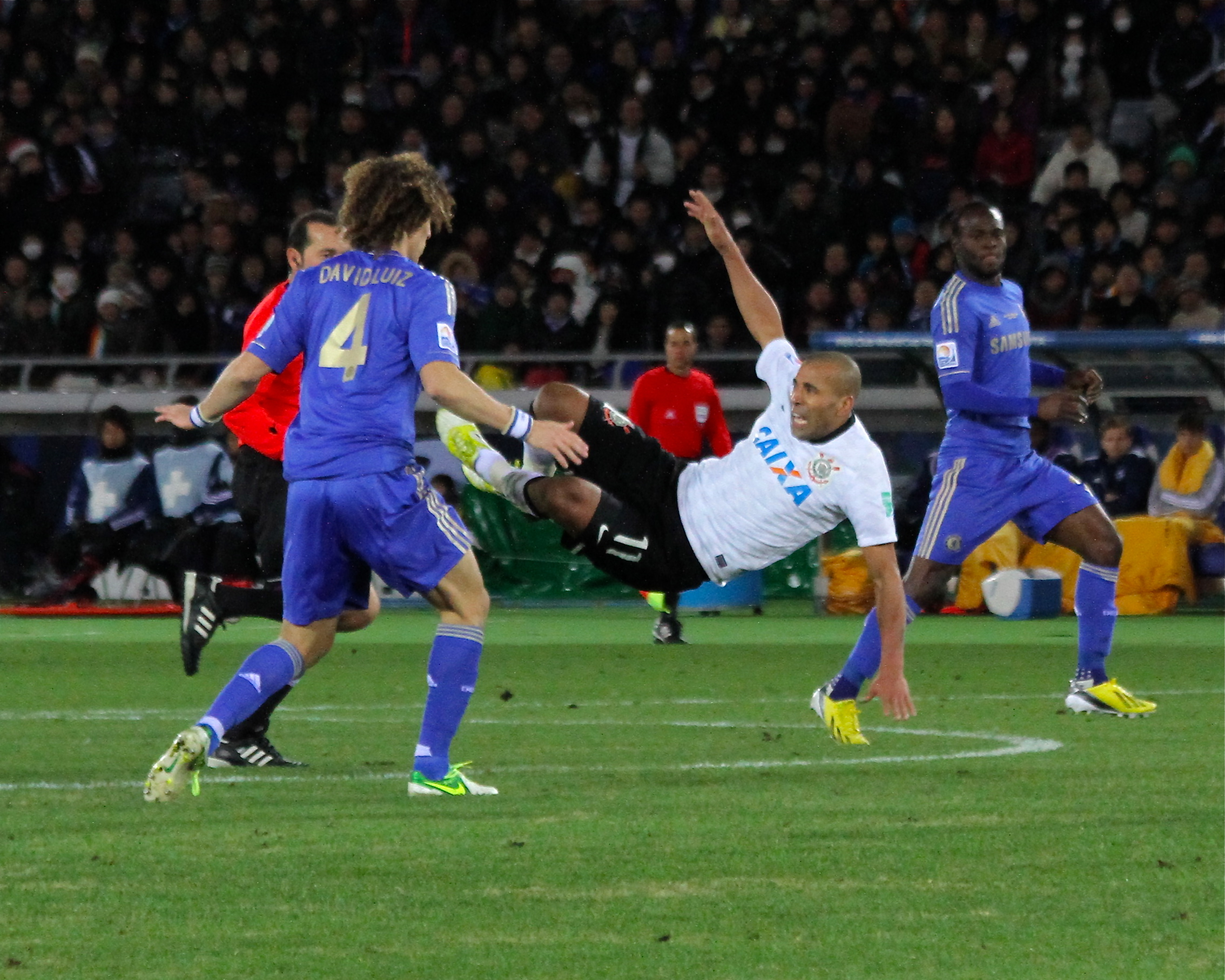 Emerson of Corinthians